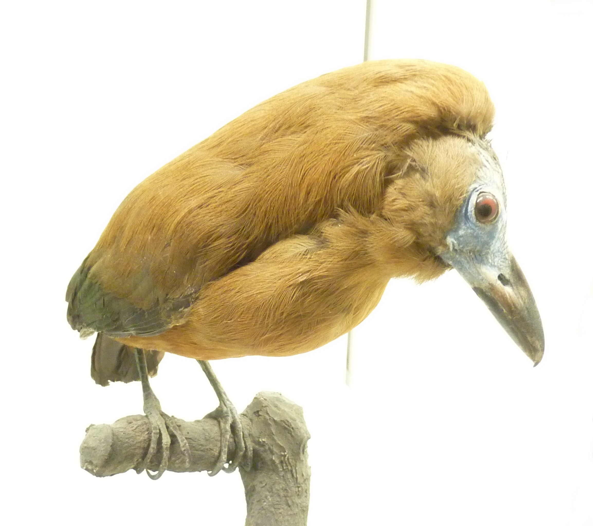 Mounted Capuchinbird (Perissocephalus tricolor), at the Muséum d'Histoire naturelle de Genève.